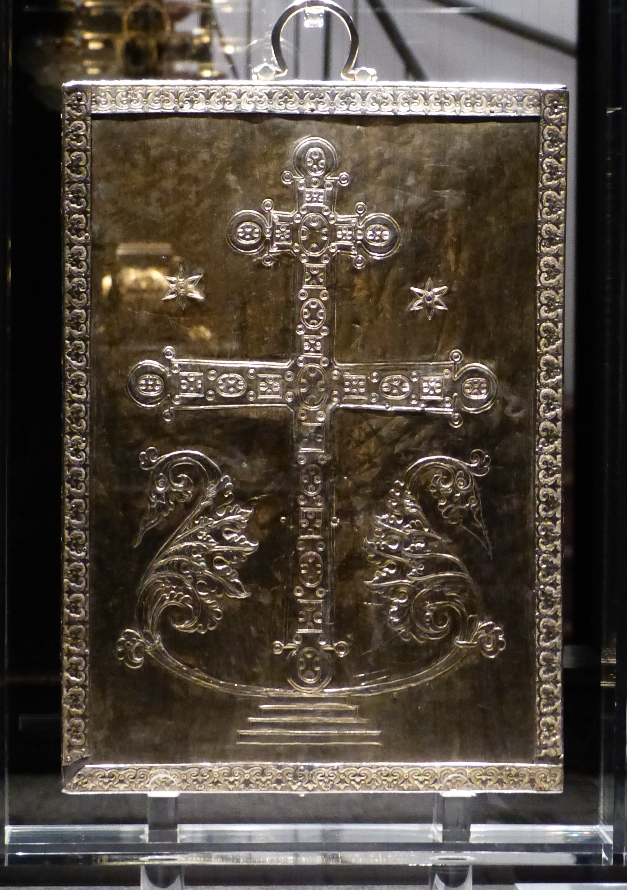 Limburger Staurothek; reliquiary of the True Cross, made in Constantinople,ca 960. � reverse